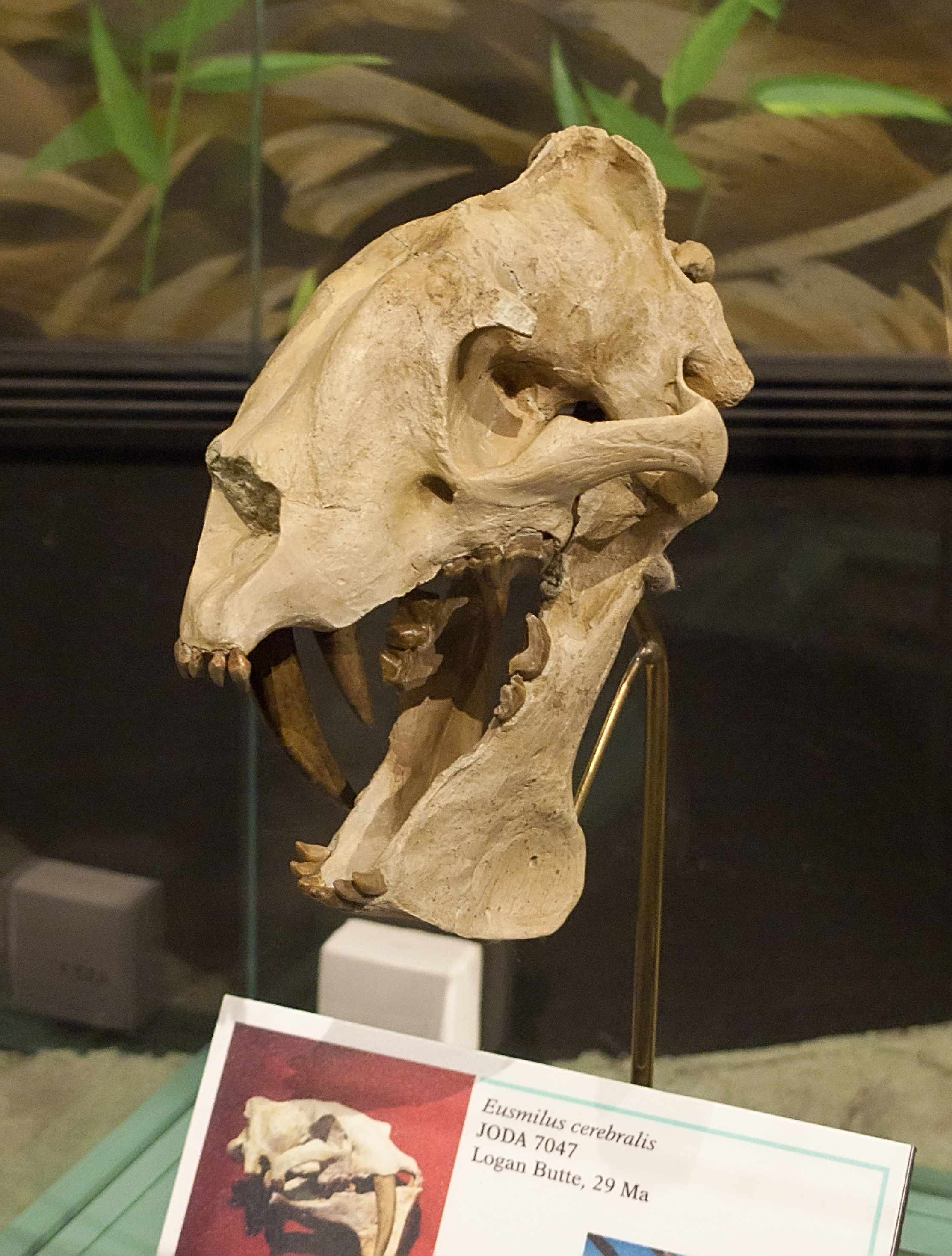 Skull of a rare Eusmilus cerebralis often called a toy sabertooth at the John Day Fossil Beds National Monument Visitors Center